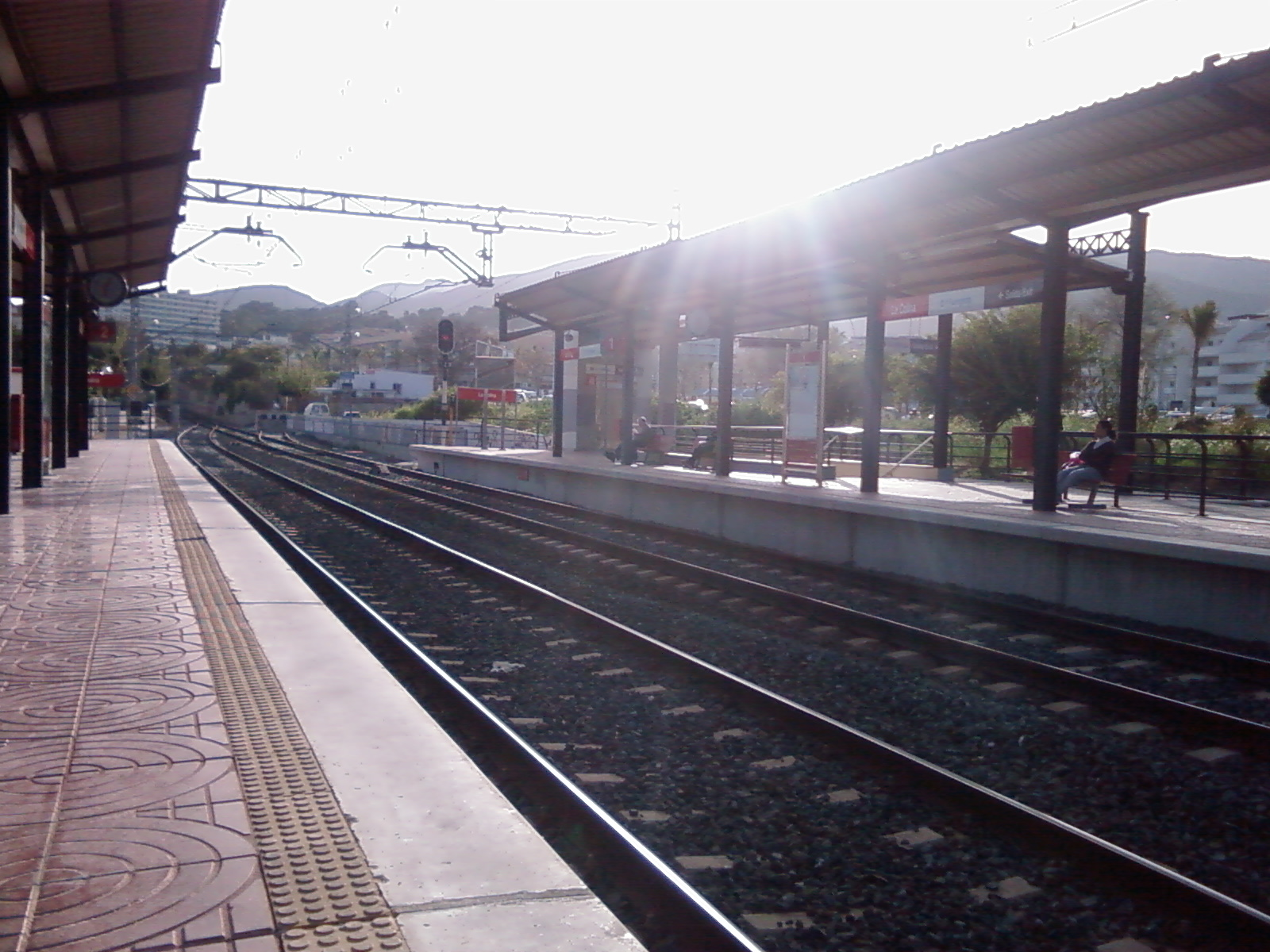 La Colina Station, Torremolinos, Cercanías Málaga, Spain